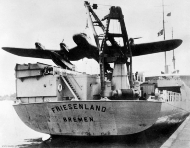 A Blohm and Voss Ha 139 seaplane being hoisted onto the stern catapult of the German depot ship, Friesenland, which is docked in her home port of Bremen, Germany. Initially operated as mail planes by Lufthansa in the 1930s, these aircraft saw limited service with the Luftwaffe during the Second World War as mine laying, reconnaissance and ambulance aircraft. The depot ship Friesenland could carry two of these aircraft and she was launched at Kiel on 23 March 1937 and completed later that year. She operated in France and Norway as a seaplane tender/depot ship, and was also used as a repair ship at Trondheim. After the war, Friesenland was taken over by the Royal Navy and continued to be used as a seaplane depot. In 1949 she was sold into merchant service and renamed Fair Sky. She was sold several more times, being renamed Castel Navoso and Argentine Reefer. She was scrapped in 1968-1969.